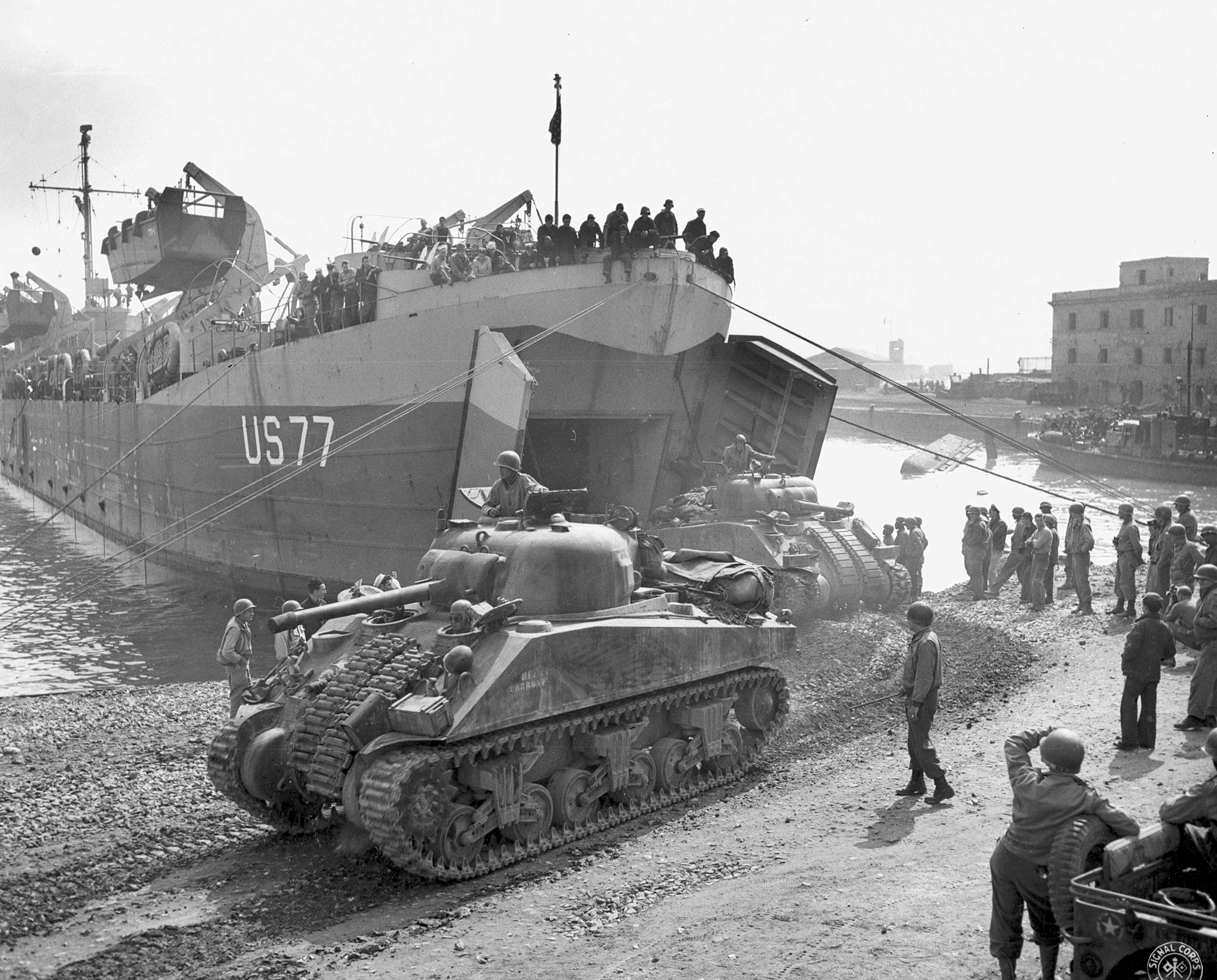 Tanks of an Armored regiment are debarking from an LST [US 77] in Anzio harbor [Italy] and added strength to the U.S. Fifth Army [VI Corps] forces on the beachead (WWII Signal Corps Photograph Collection).